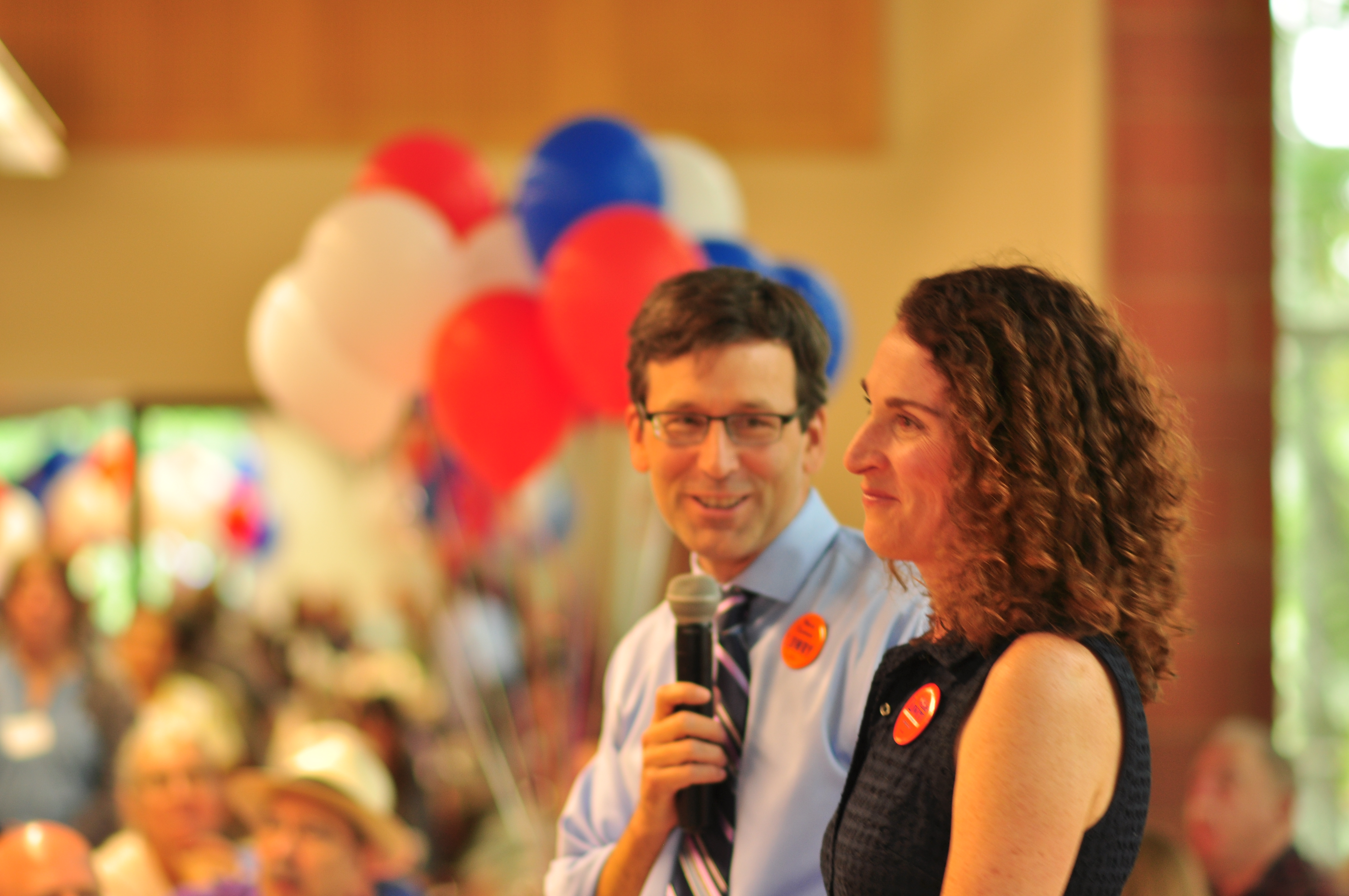 Washington State Attorney General Bob Ferguson and his wife Colleen Ferguson, at Bob's annual Shrimp Feed, Northgate Community Center, Seattle, Washington.